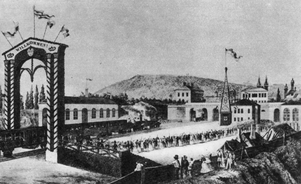 Arrival of the first train from Vienna to Prague